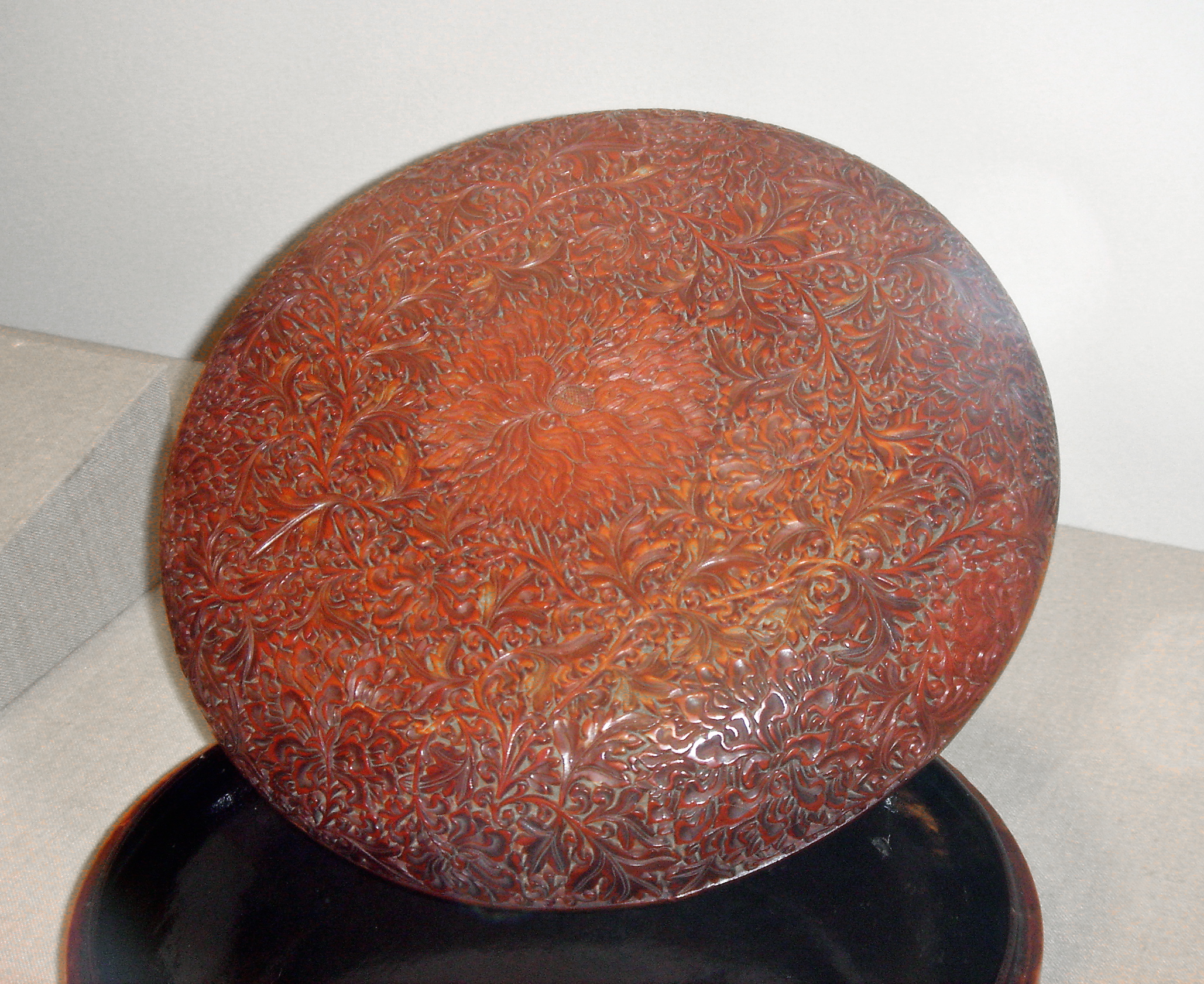 A Chinese Ming Dynasty red lacquerware container with intricately carved decorations, 16th century. From the Freer and Sackler Galleries of Washington D.C. Author: User:PericlesofAthens Date: August 3, 2007